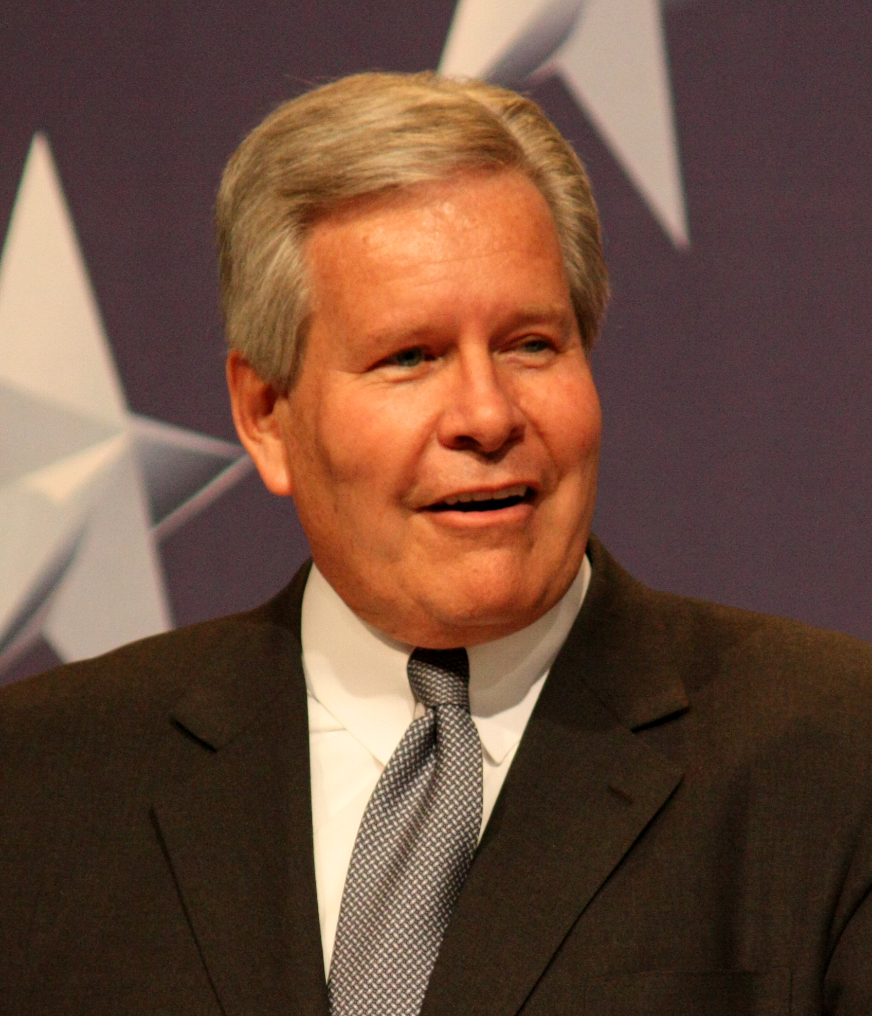 Former Congressman Bob McEwen at CPAC in Washington, D.C..